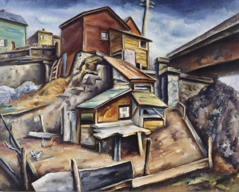 Cliff Dwellings Painting, 32x40 in